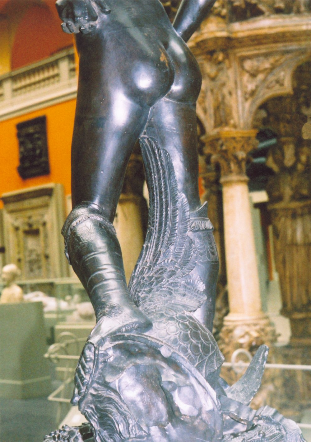 Painted plaster replica of Donatello's bronze David in the Cast Courts of the Victoria and Albert Museum, London. Back left, another view of legs showing the wing of Goliath's helmet caressing David's right leg. Note peeling paint on left buttock, and seams and small flaws in plasterwork. Photo by User:Lee M, April 2005. 35mm lens, flash, skylight.